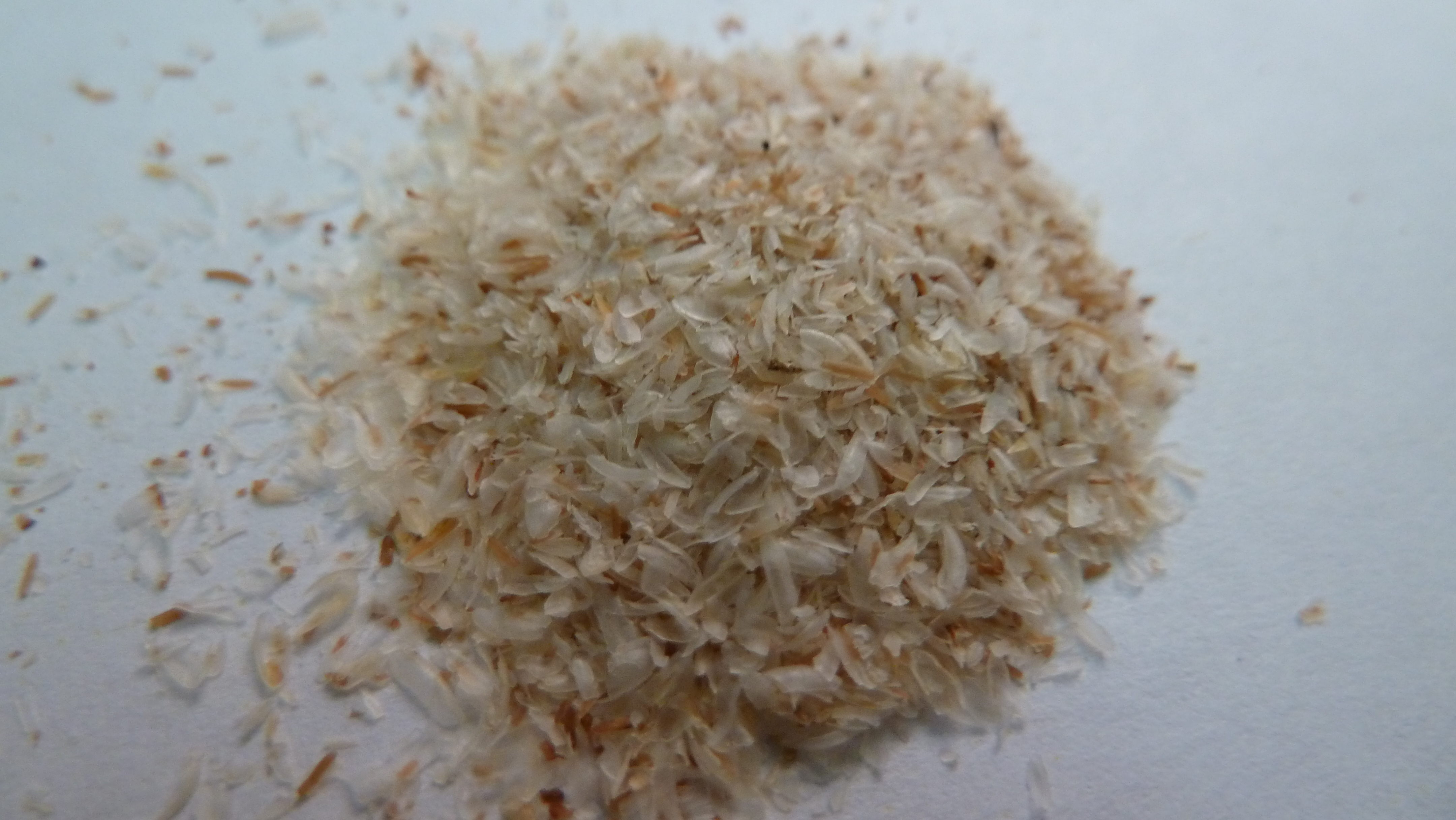 photograph of psyllium seed husks